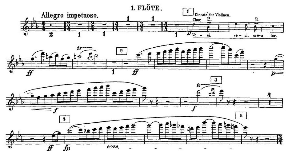 The 1st page of Mahler Symphony No.8, 1st flute part score, which showing a rehearsal number with blanket.